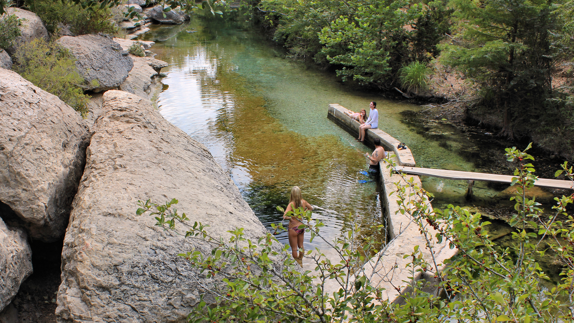 Jacob's Well and Cypress Creek in Jacob's Well Natural Area, Hays County, Texas United States.